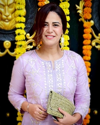 Mona Singh celebrating Diwali